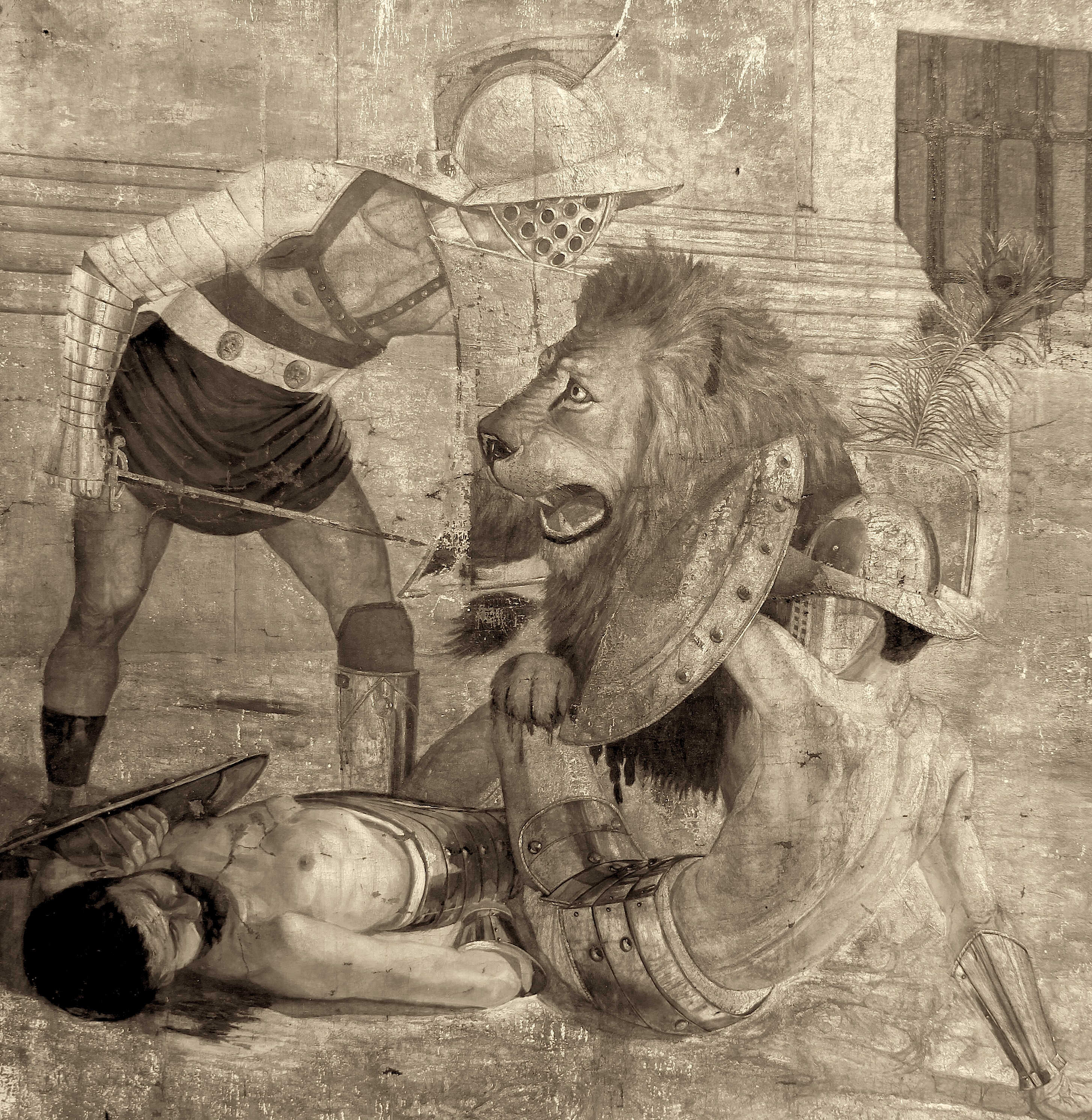 Gladiators in the Roman Colosseum with a Lion. Studio artist of Firmin Didot